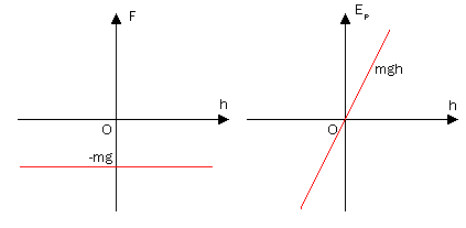 The graph of Gravitational force and potential energy between something and the earth.